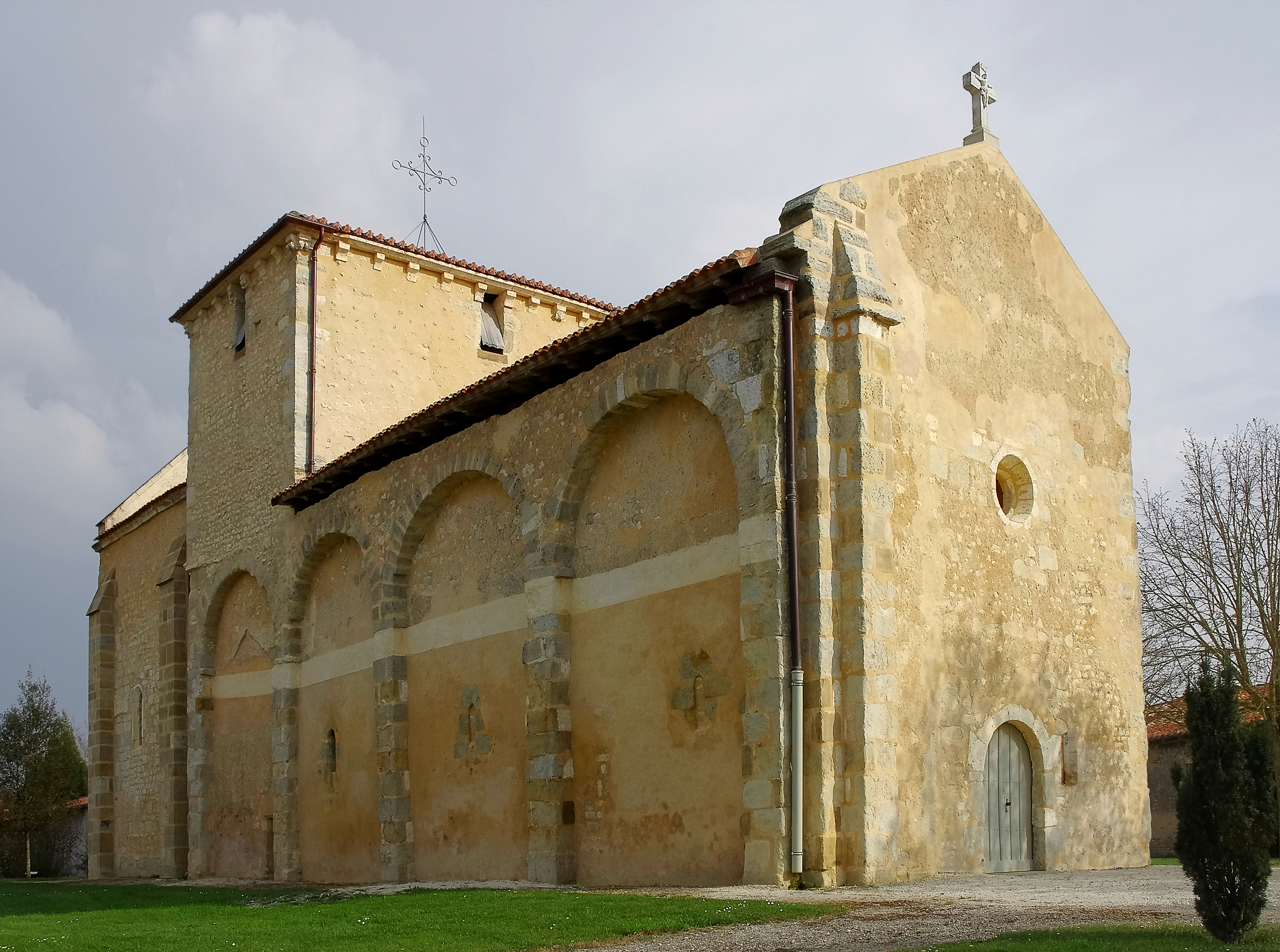 Saint-Martin church (XIth-XVIIth centuries), Poullignac, Charente, France. .